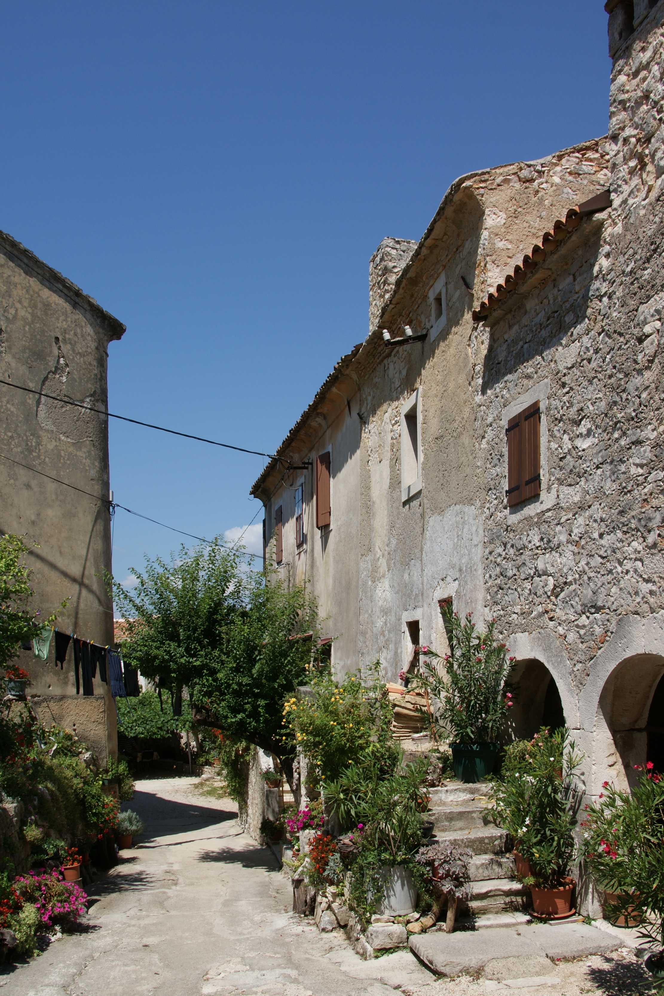 Kršan, Istria